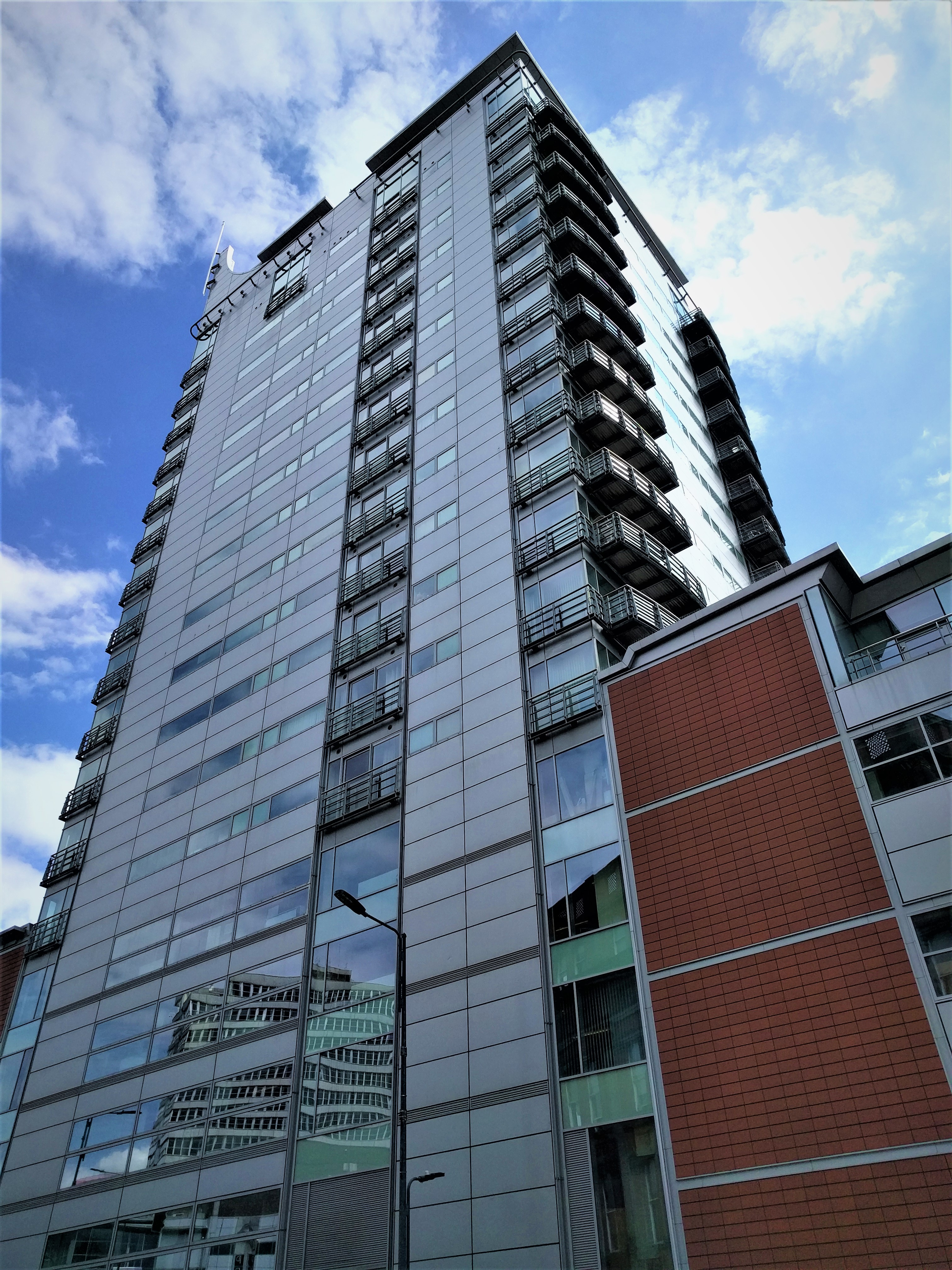 K2 building, 133 Albion Street, Leeds, West Yorkshire, England